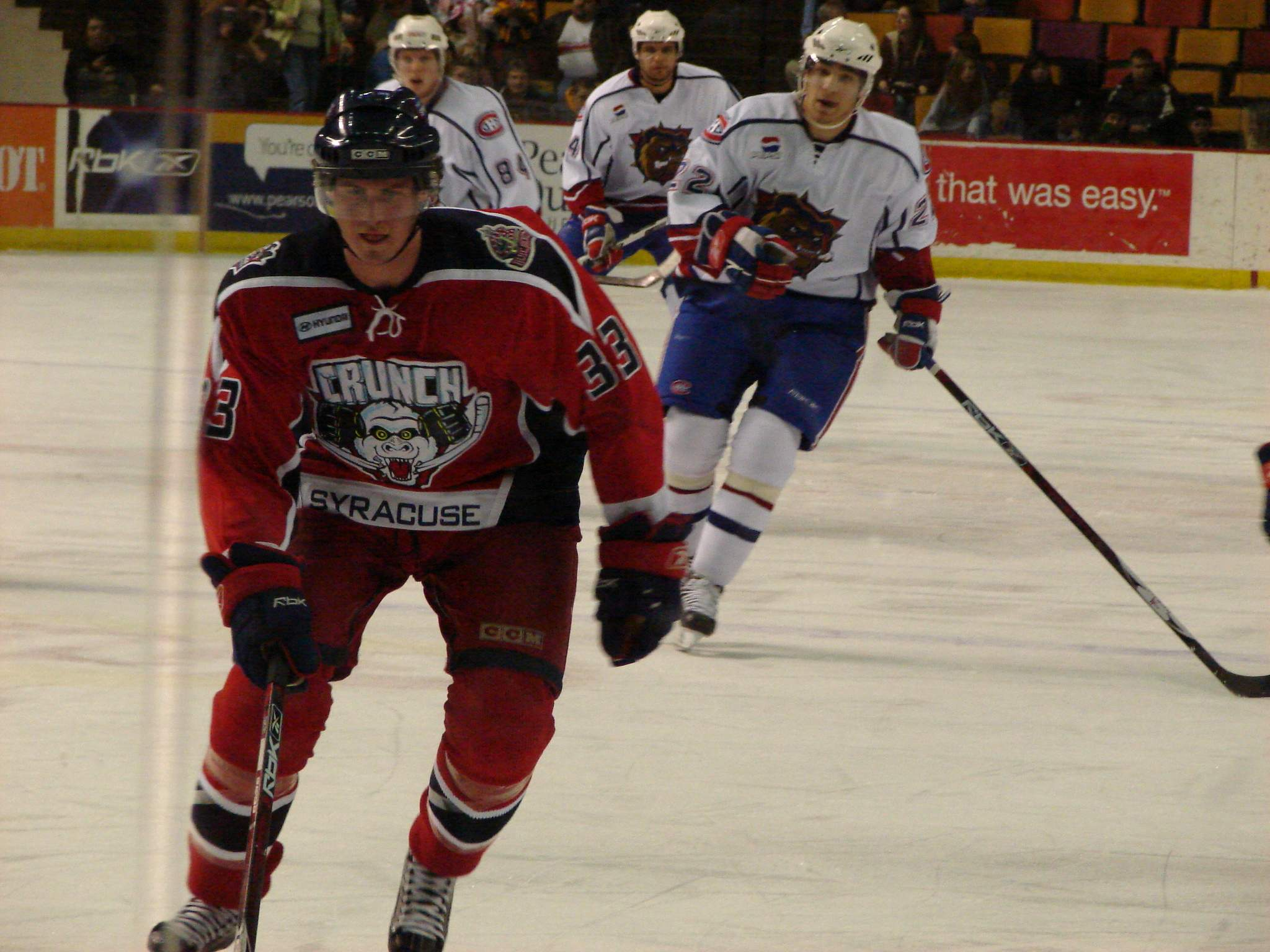 Jekabs Redlihs, #33, spring 2007 with Syracus Crunch (AHL) in game against Hamilton Bulldogs